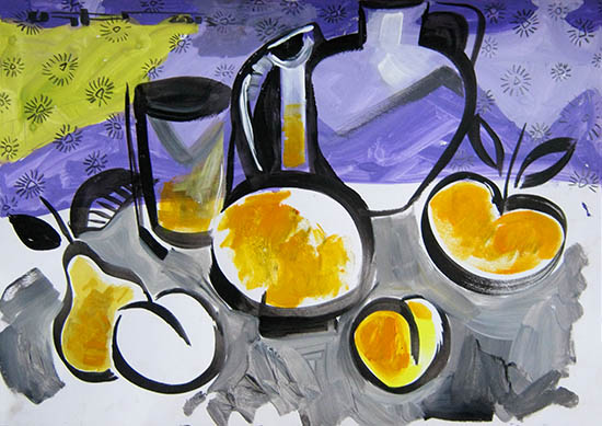 "Still life on violet background". Gouache on paper . 30,5x43cm